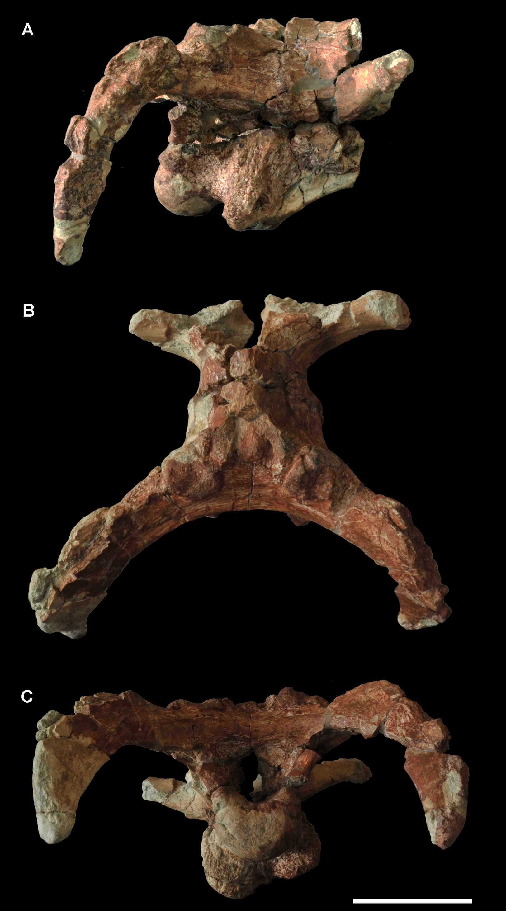 Photos of caudodorsal part of the skull of Yunganglong datongensis (SXMG V 00001). (A)-Right lateral view. (B)-Dorsal view. (C)-Caudal view. Scale bar = 10 cm.